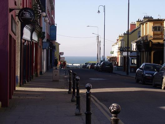 Main St Ballybunion, looking south to the sea